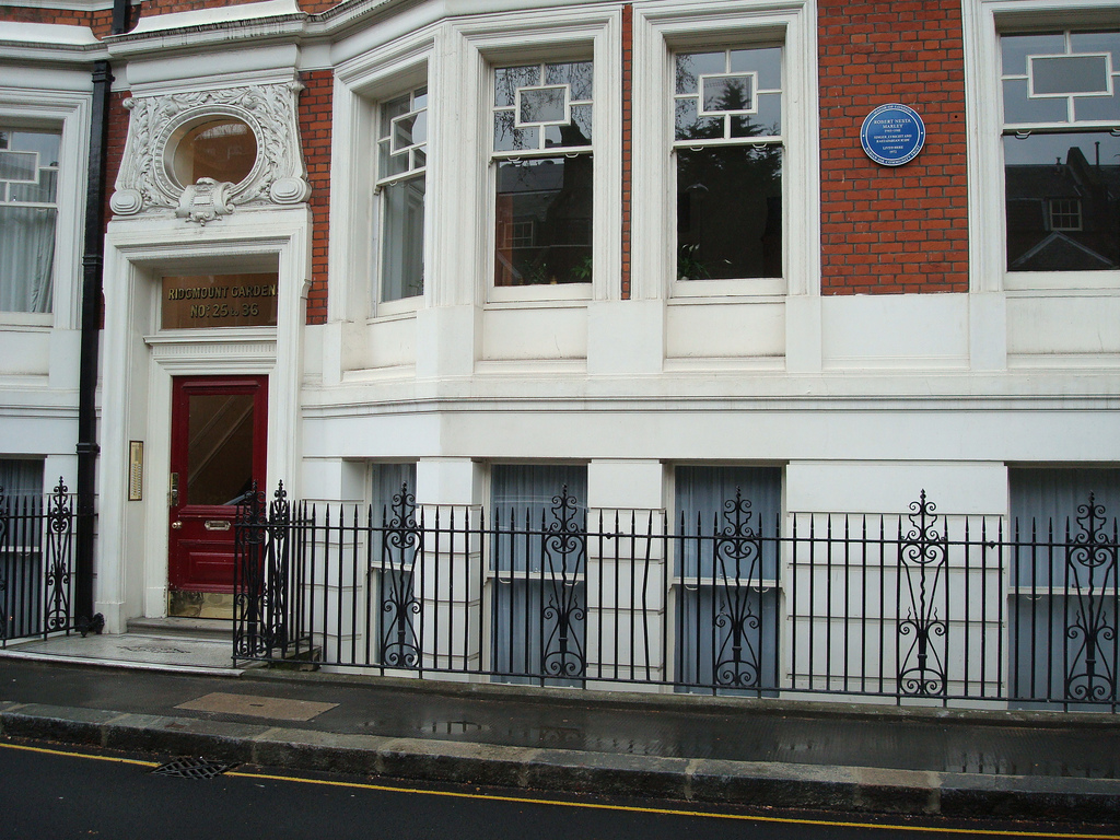 Bob Marley's flat at 34 Ridgmount Gardens, London. Marley lived here in 1972. See: Bob Marley’s London home on the Music Pilgrimages website, and Google Maps location and street view. See also: "Blue plaque marks flats that put Marley on road to fame", by Hugh Muir, 27 October 2006 in The Guardian (UK). "Marley lived at Ridgmount Gardens during 1972." See: Bob Marley's London life on 30th anniversary of death, by Will Cantopher, 11 May 2011, BBC News. It discusses where Marley lived in London in 1971 and afterwards.